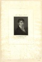 1819 etching of portrait of Jan Niszkowski